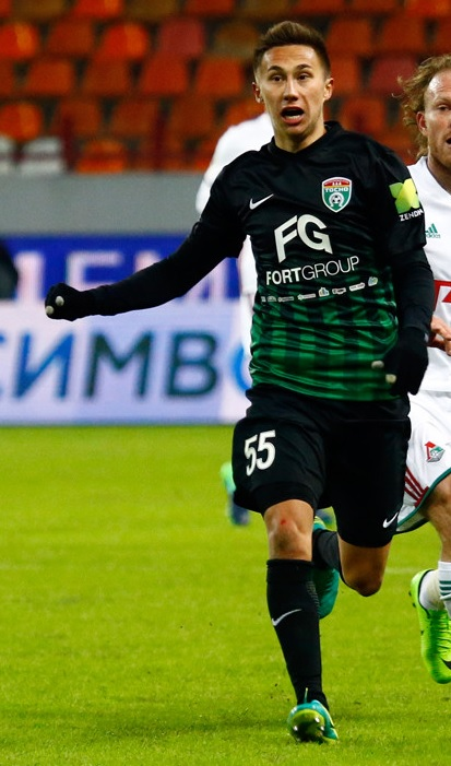 Ilnur Alshin playing for FC Tosno in a Russian Cup game against FC Lokomotiv Moscow.